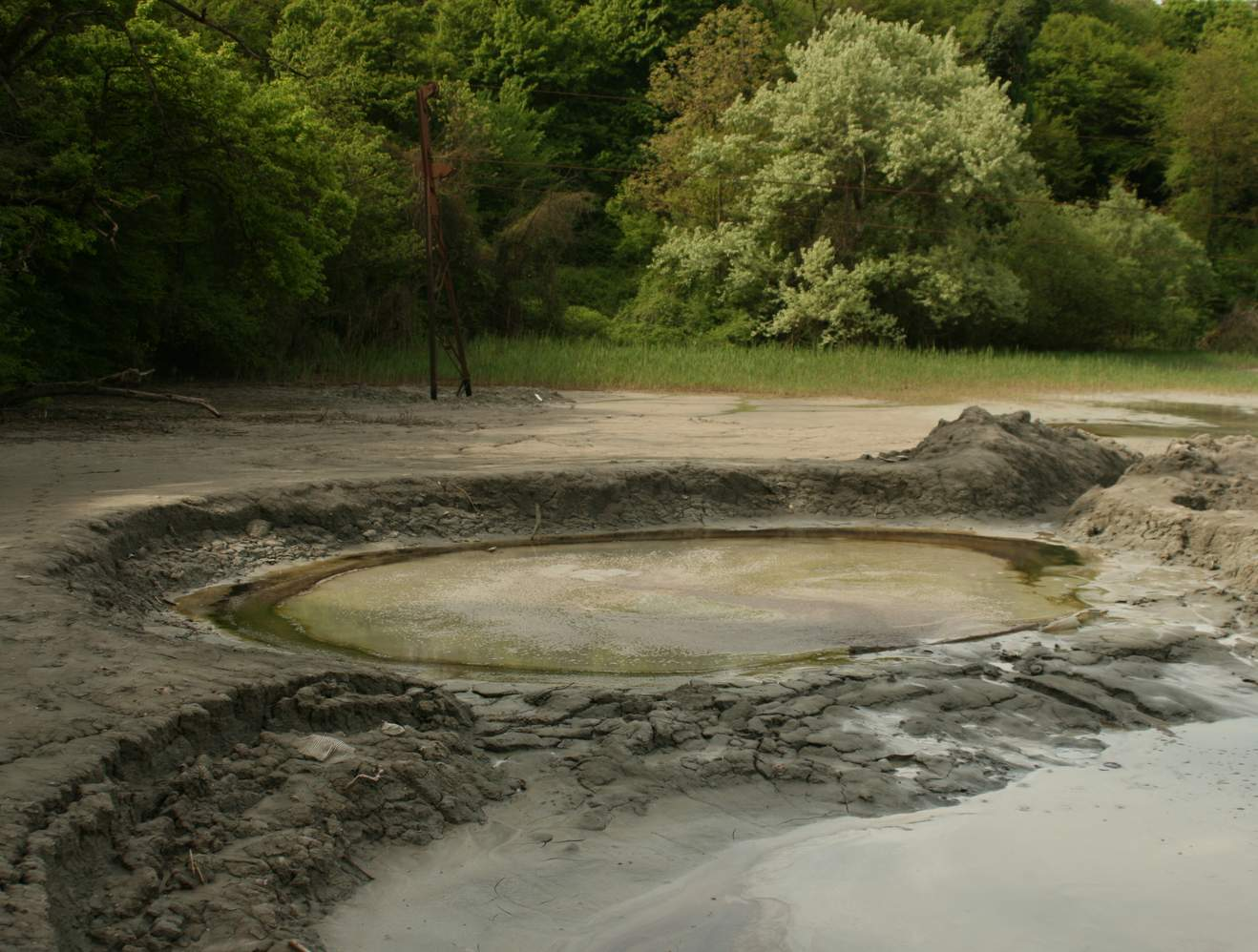 Kakheti. Akhtala muds